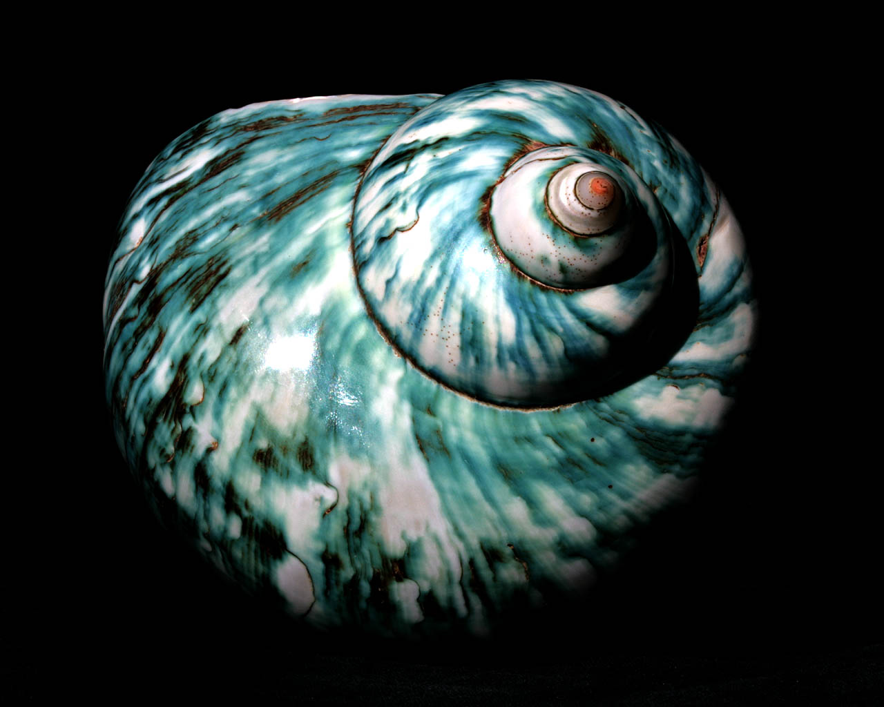 A shell of the sea snail Turbo imperialis collected near Toliara (Tulear), Madagascar. (The name of the file is misleading. This is not the species Turbo marmoratus, another "green turban shell". The two are often confused.)